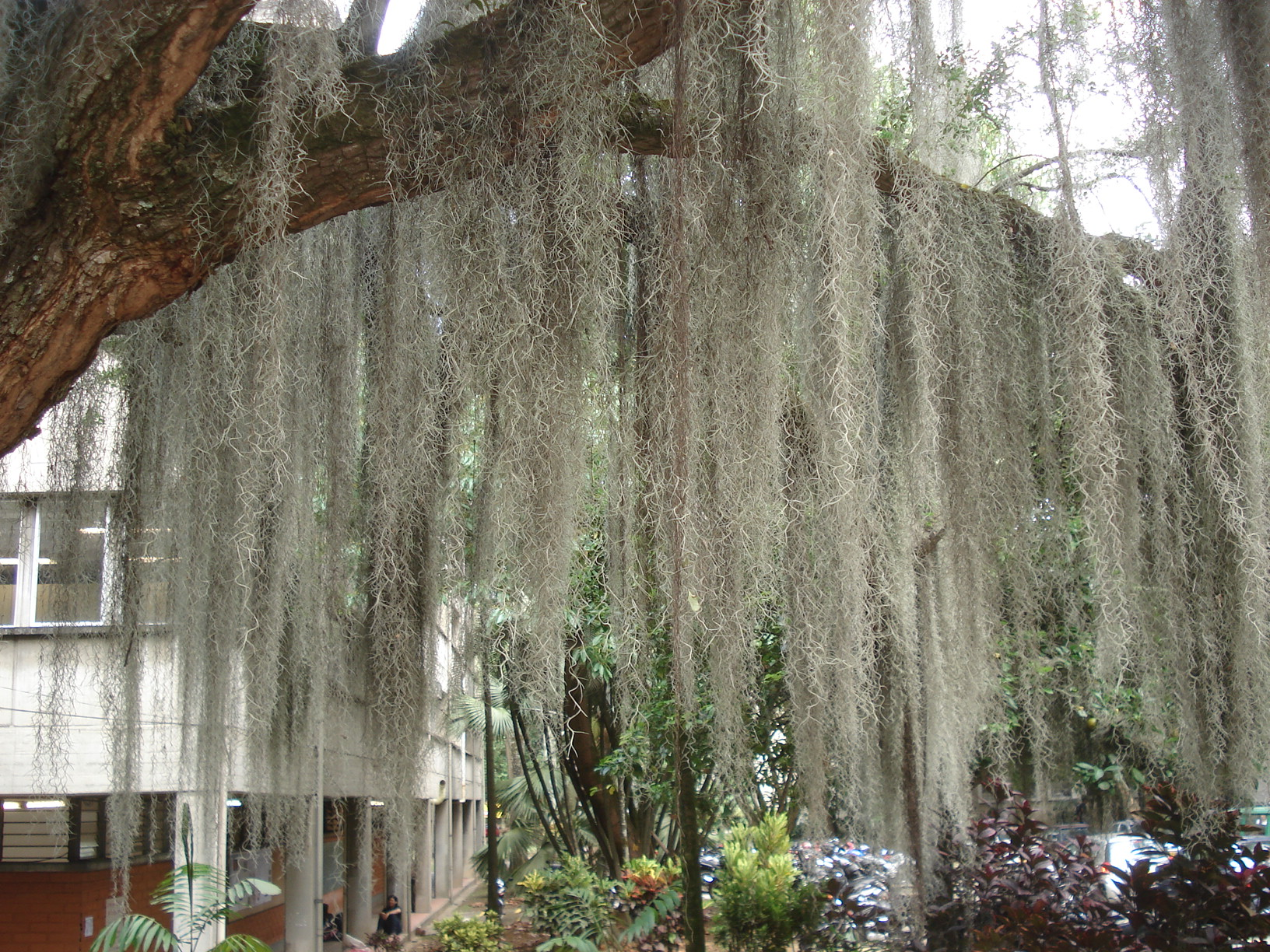 tree with a parasite (Spanish Moss) on campus of universiad nacional in Medellin